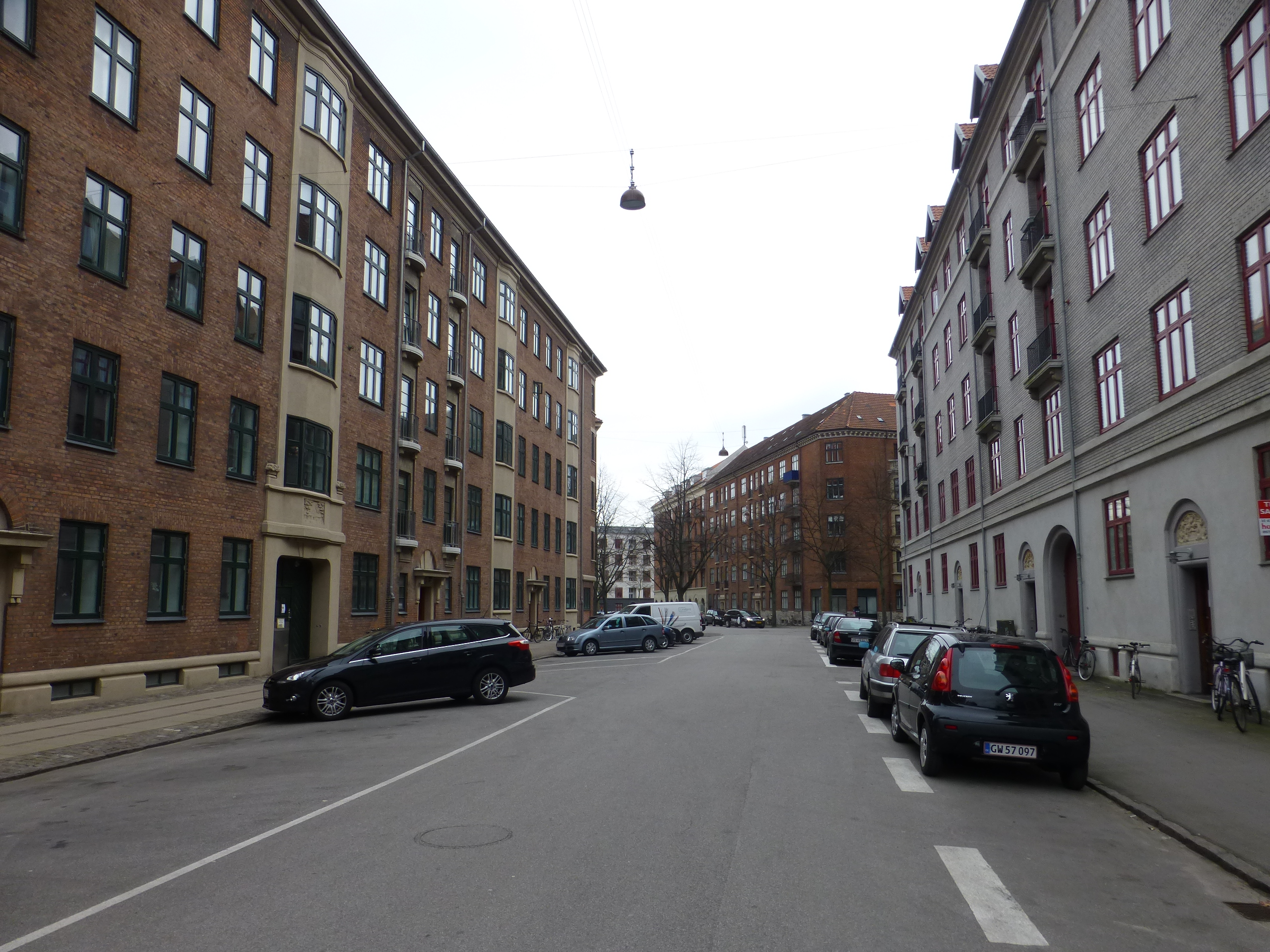 The street Korsørgade in Østerbro in Copenhagen.